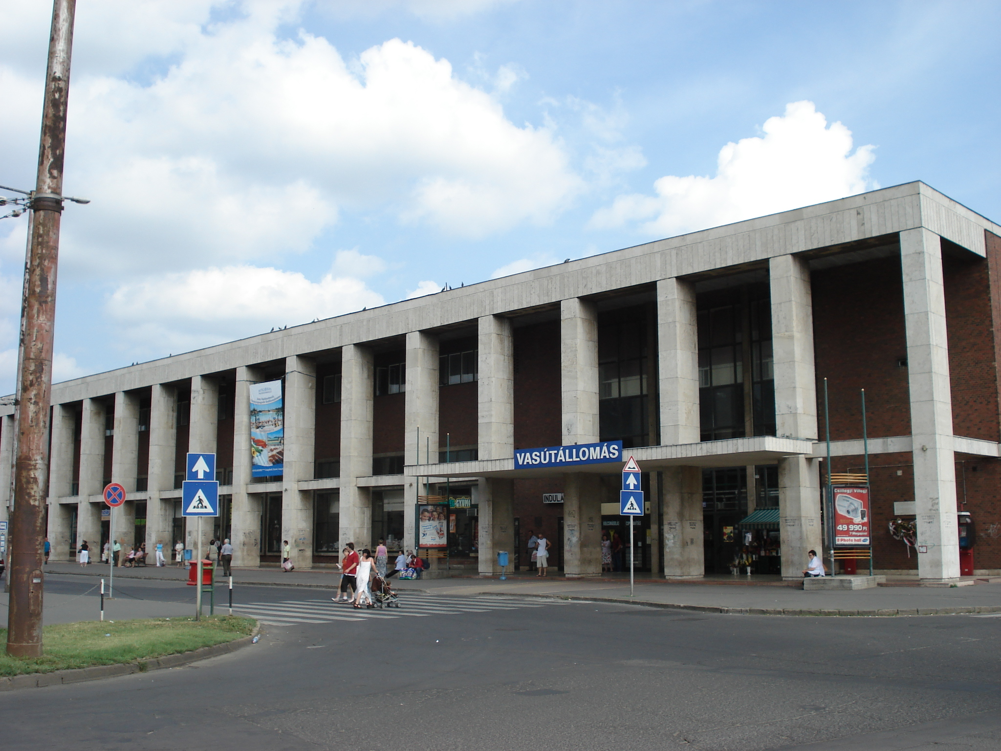 Train station in Debrecen. Taken by David Sallay, June 2007.